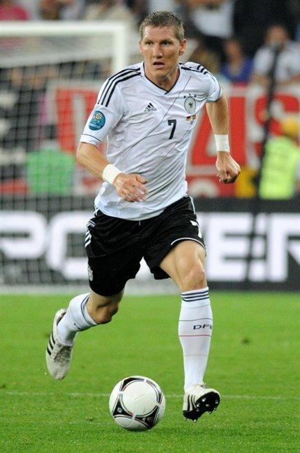 Match between Germany and Portugal during UEFA Euro 2012 that took place in Lviv. Final score was 1:0 (Gómez).